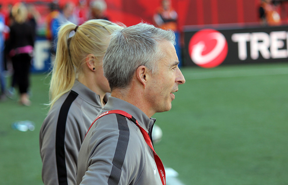 This photo was taken at the 2015 FIFA Women's World Cup in Canada before the Group A match between China and New Zealand. New Zealand assistant coach Aaron McFarland watches the warm up of the New Zealand team.